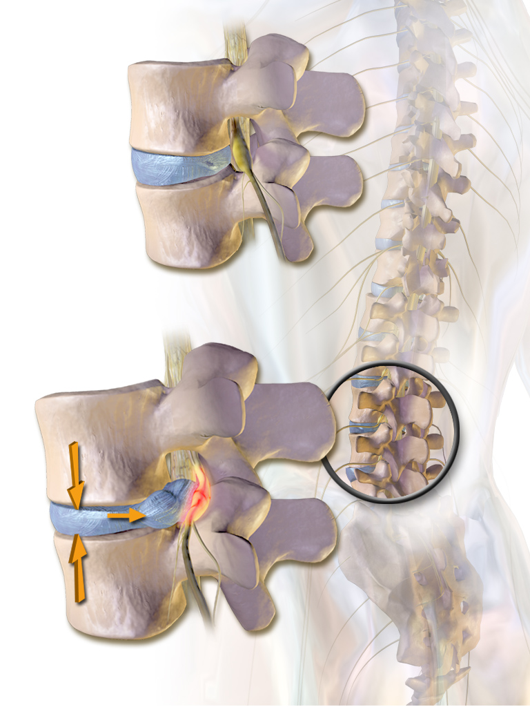 Herniated Disc. See a full animation of this medical topic.